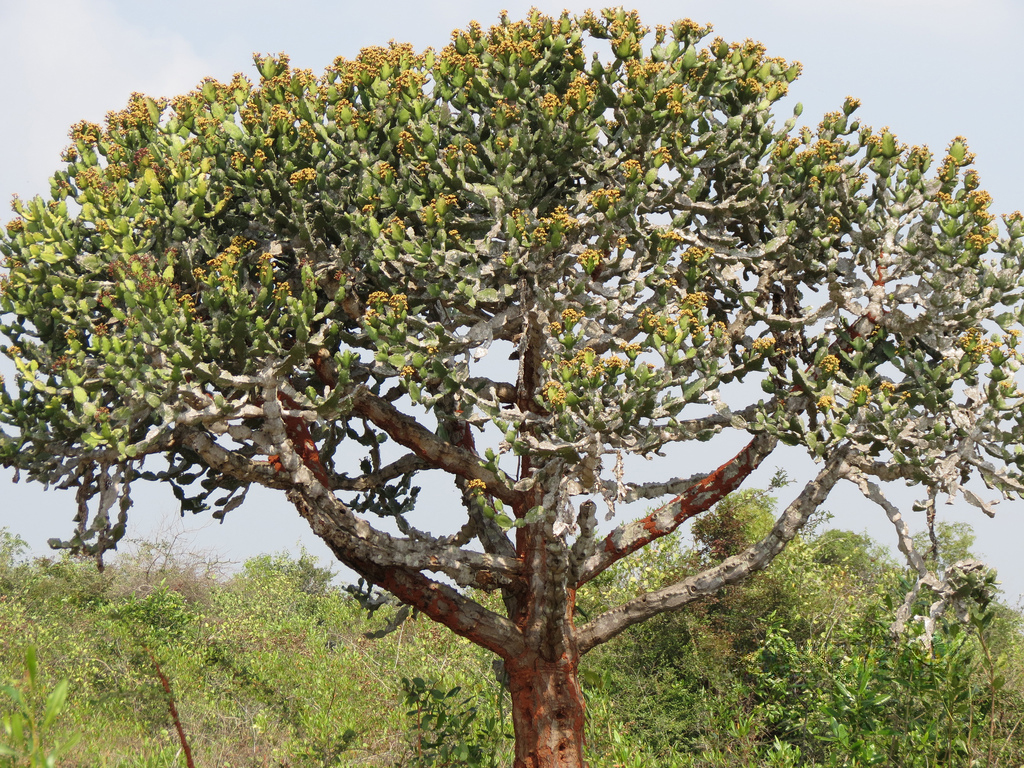 Family: Euphorbiaceae Armed, succulant trees. Branchlets 3 winged, jointed, Flowers in cyathum, in axilary terminal dichasial cymes. It is one of the dominant elements in scrub jungles, Aggressive coloniser in rocky, barren rocks. Distribution: India, Moluccas Photographed at Eastern Ghats, in the Nellore district. Local name: Bonthajemudu.